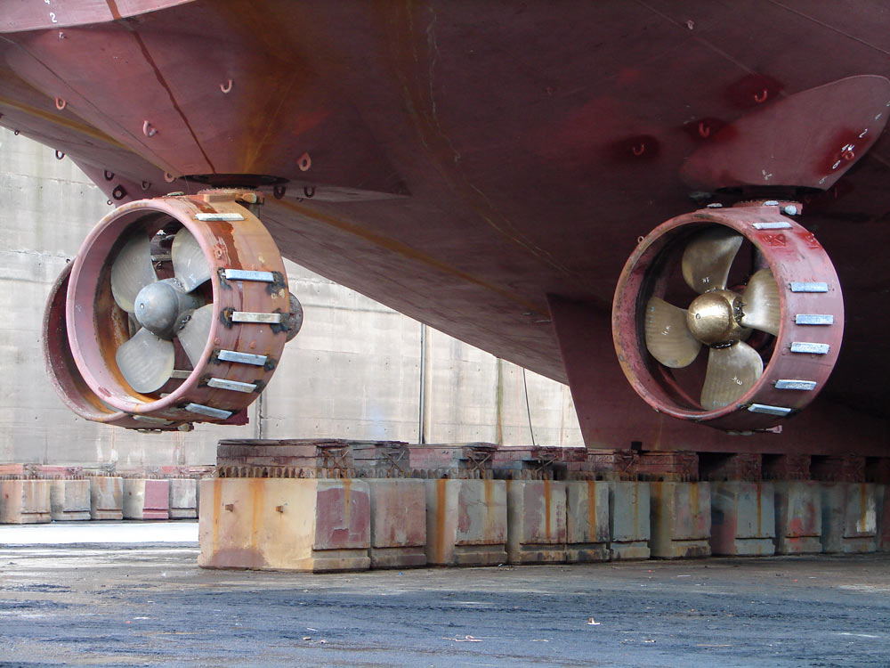 The Cable Laying & Diving Support Vessel (CLDSV) Acergy Discovery in dry dock in Brest.